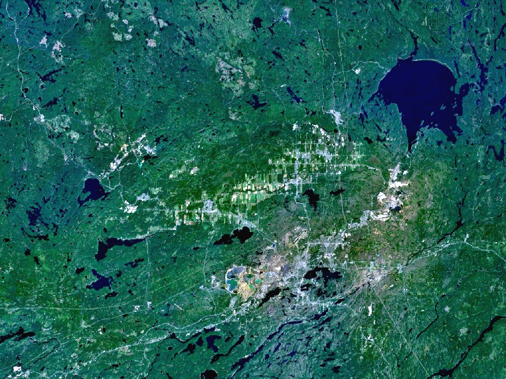 The Sudbury and Wanapitei impact craters in Ontario, Canada. Sudbury is the large, elliptical structure (60 x 30 km); Wanapitei is the lake filled crater at upper right. Its diameter is 8km, its age 37 million years.